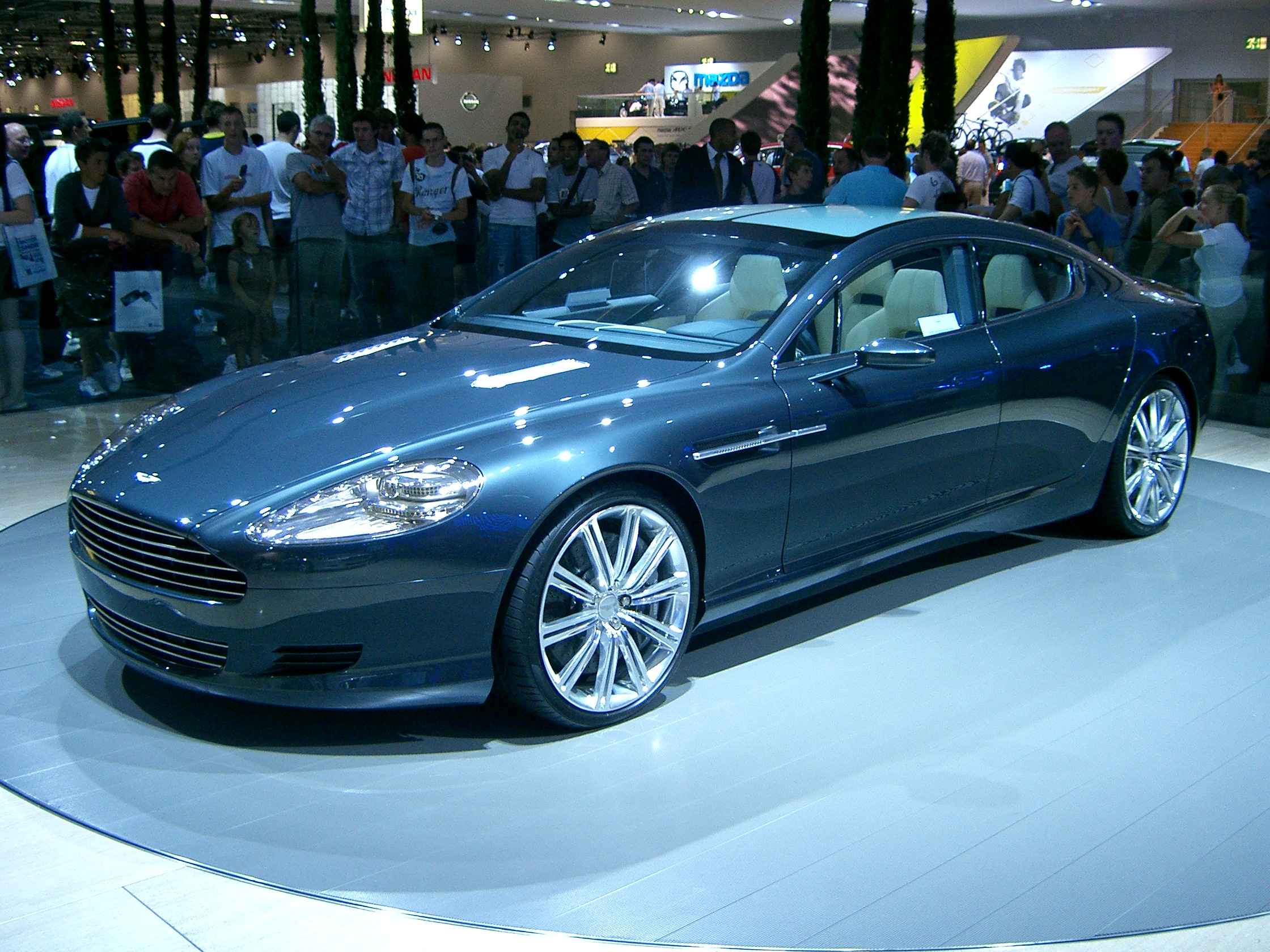 Aston Martin Rapide. Free to use. Public domain.